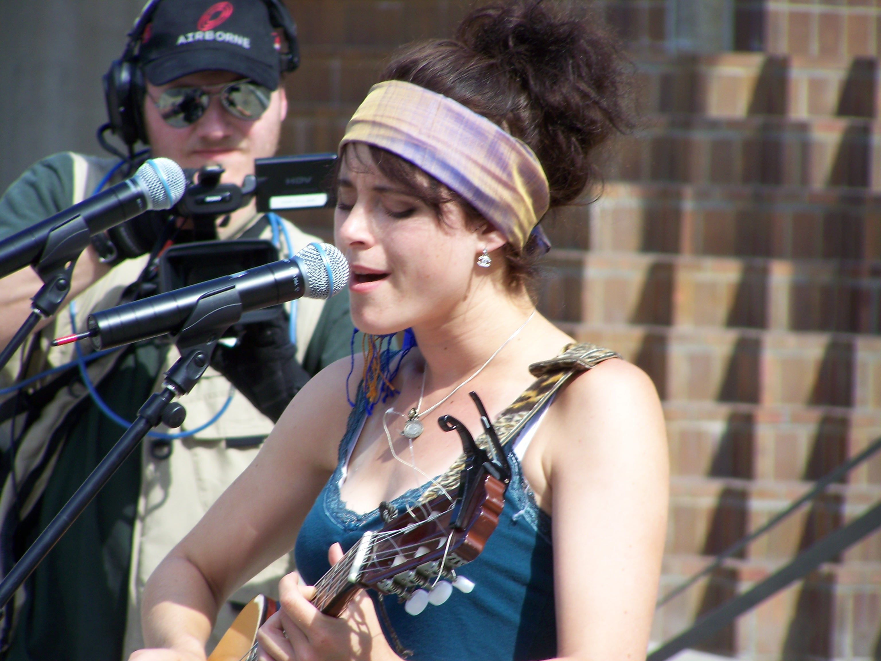 Kiesza performed at Olympic Plaza in downtown Calgary, Alberta, Canada.